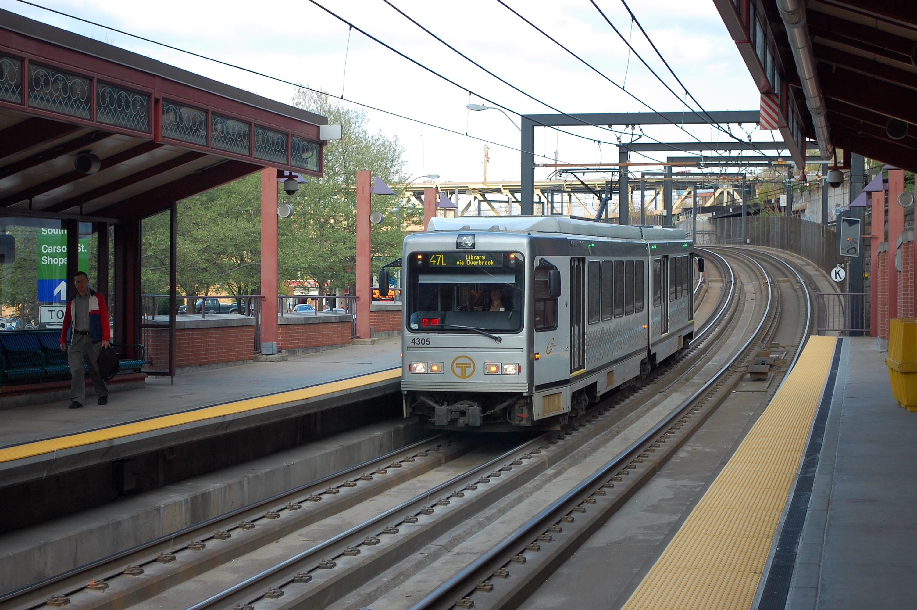 The "T" above ground at Station Square.